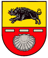 Coat of arms of Teschenmoschel